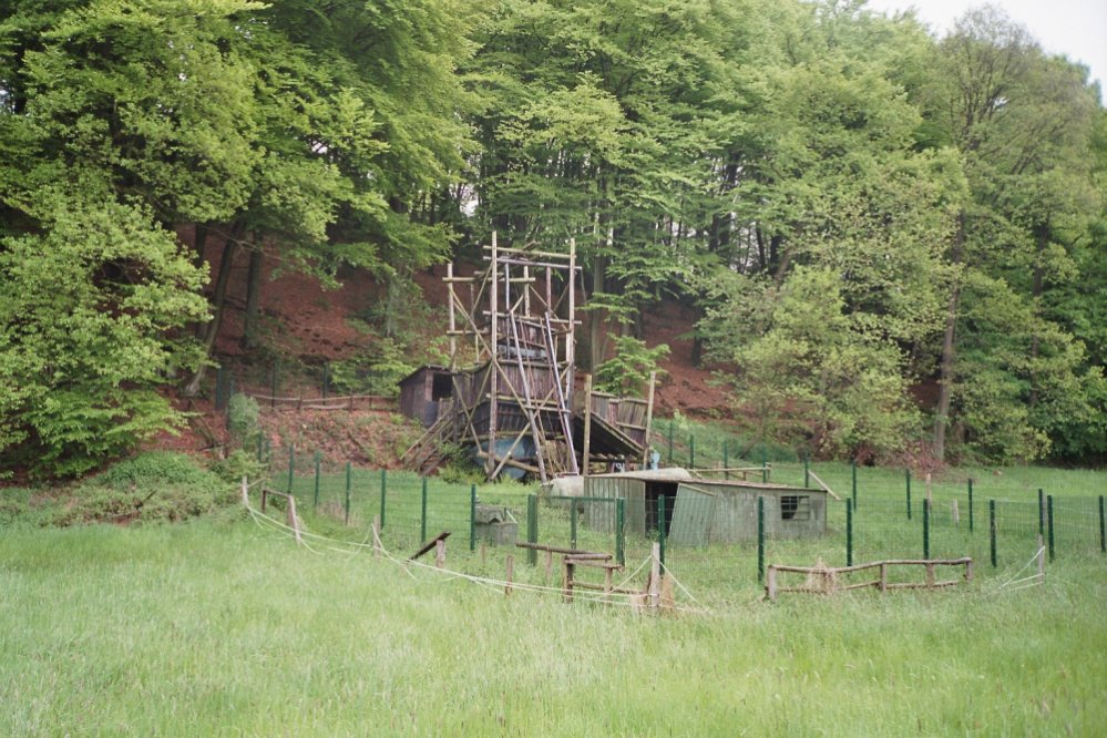 An ancient mine ("Zeche Egbert") in the Ruhr area in North Rhine-Westphalia, Germany